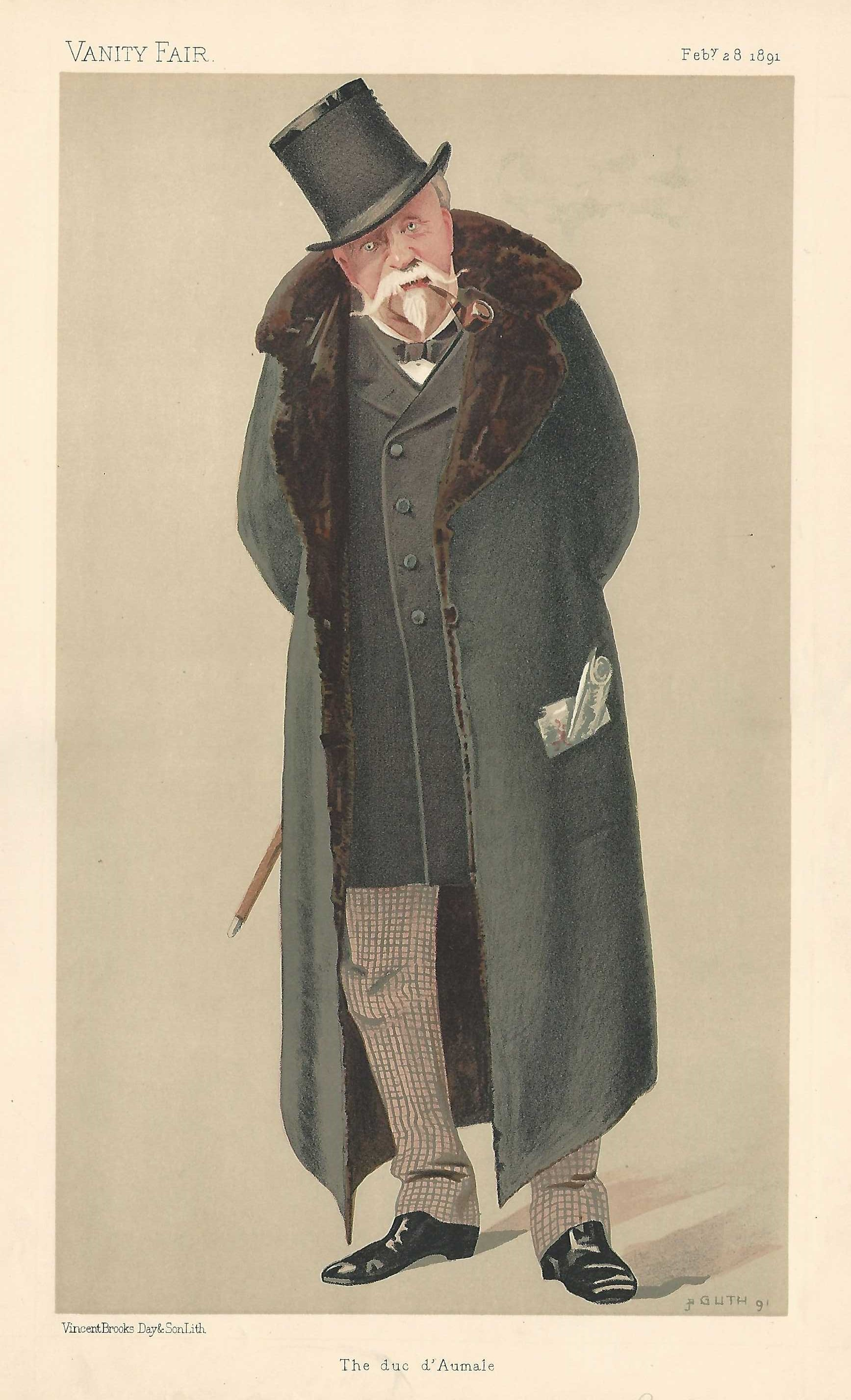 Princes No.14: Caricature of Prince Henri D'Orleans. Caption reads: "The Duc D'Aumale"